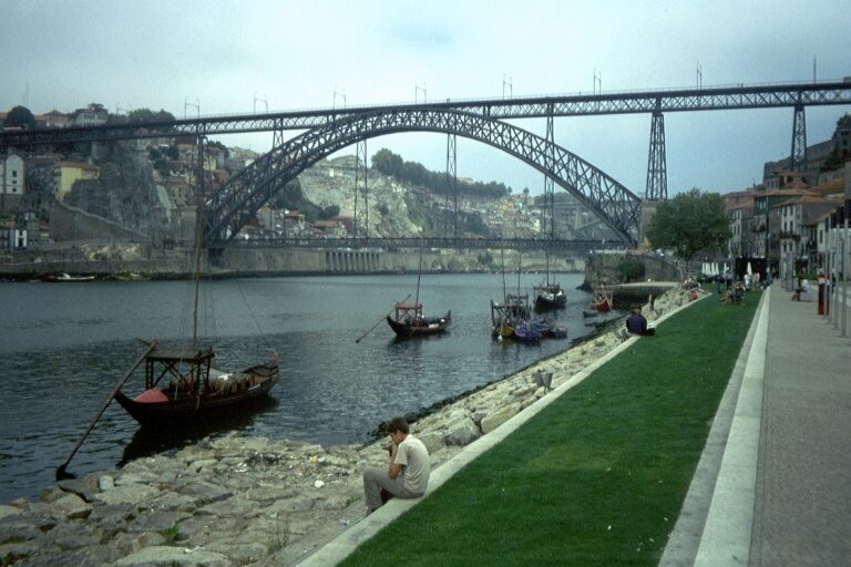 The River Douro and Dom Luiz I. Bridge in Porto, Portugal.